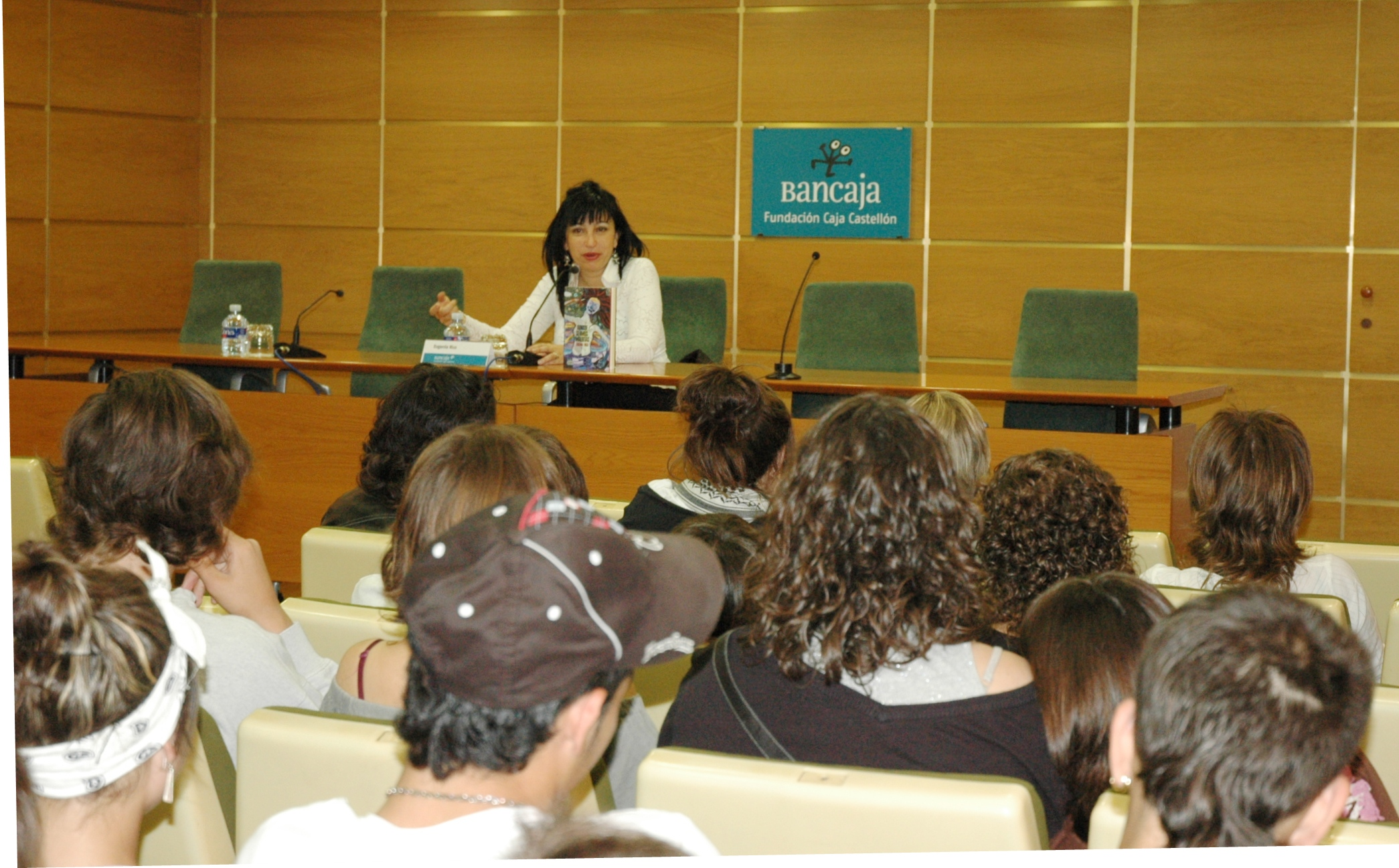 Eugenia Rico, encuentro con estudiantes